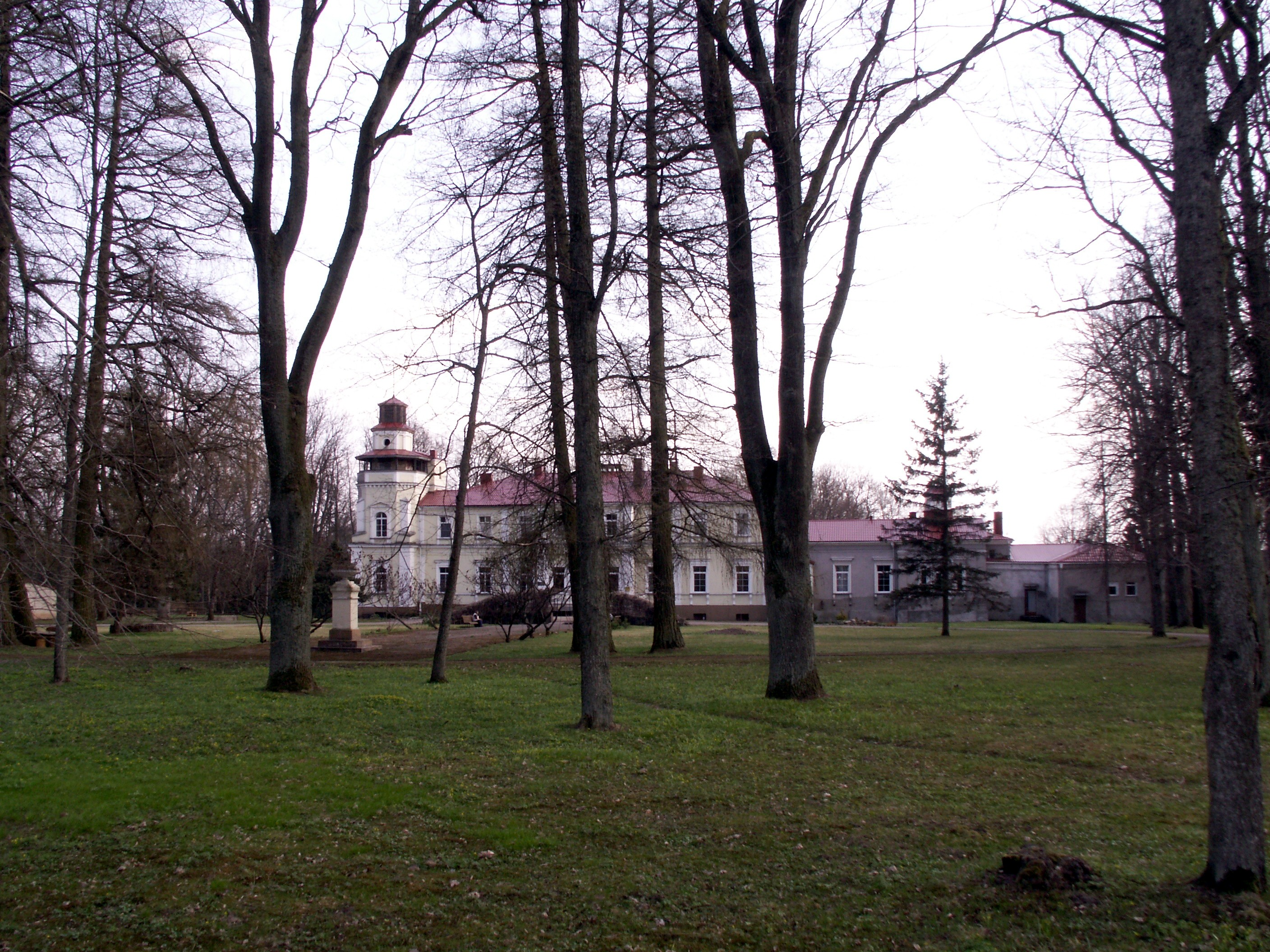 Pagryžuvys manor, Kelmė district, Lithuania